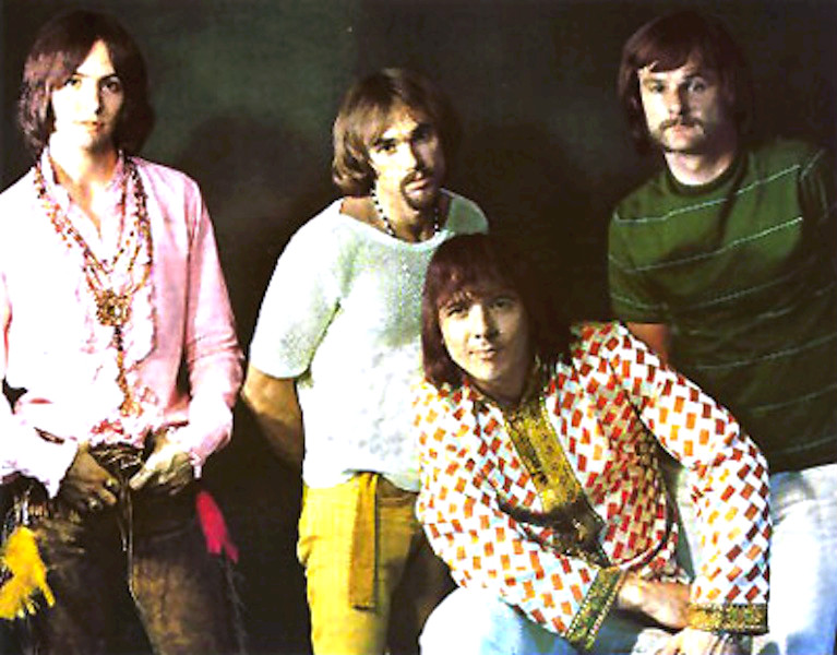 Photo from an ad thanking ATCO Records and Associated Talent (record company and management) by the music group Iron Butterfly in the trade magazine Cash Box.